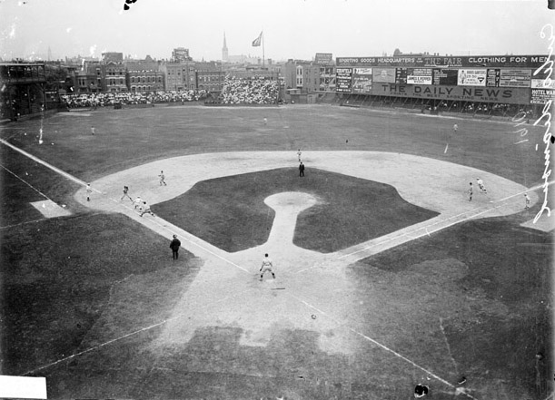 West Side Park in 1910